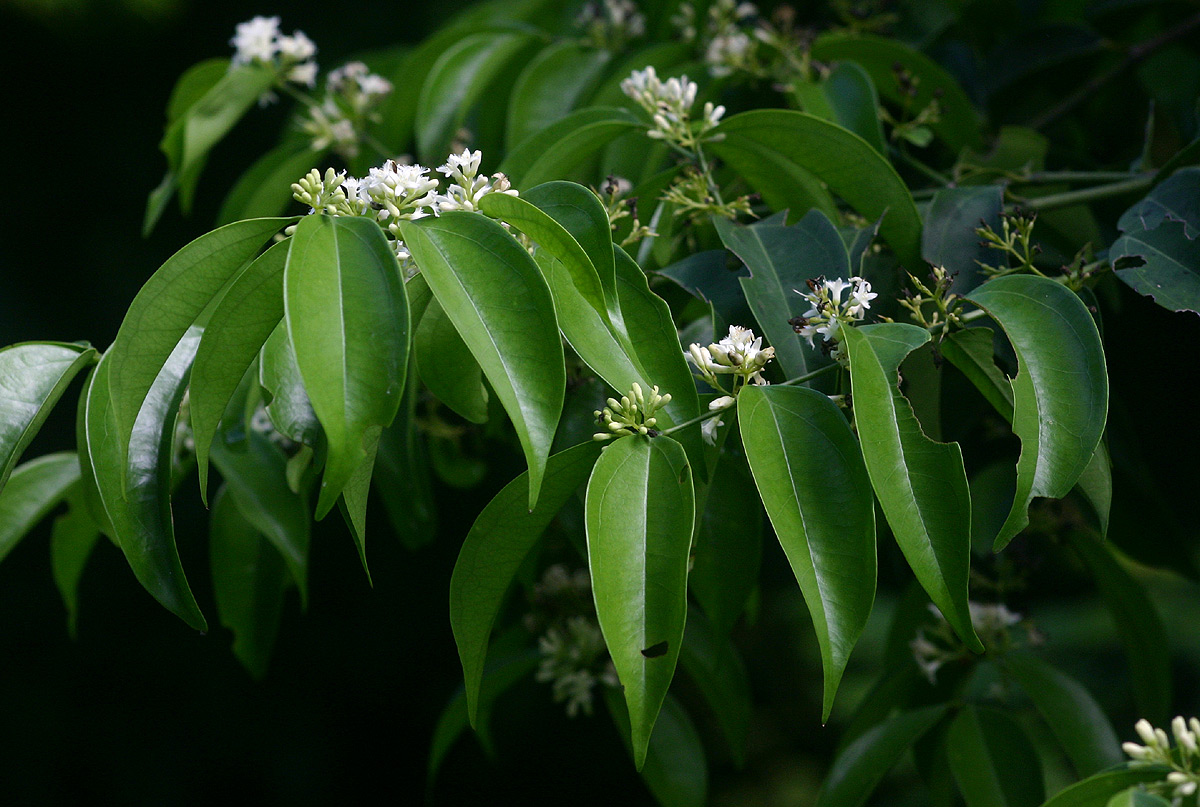 Strychnos usambarensis flowers - Inhamitanga Forest, Mozambique